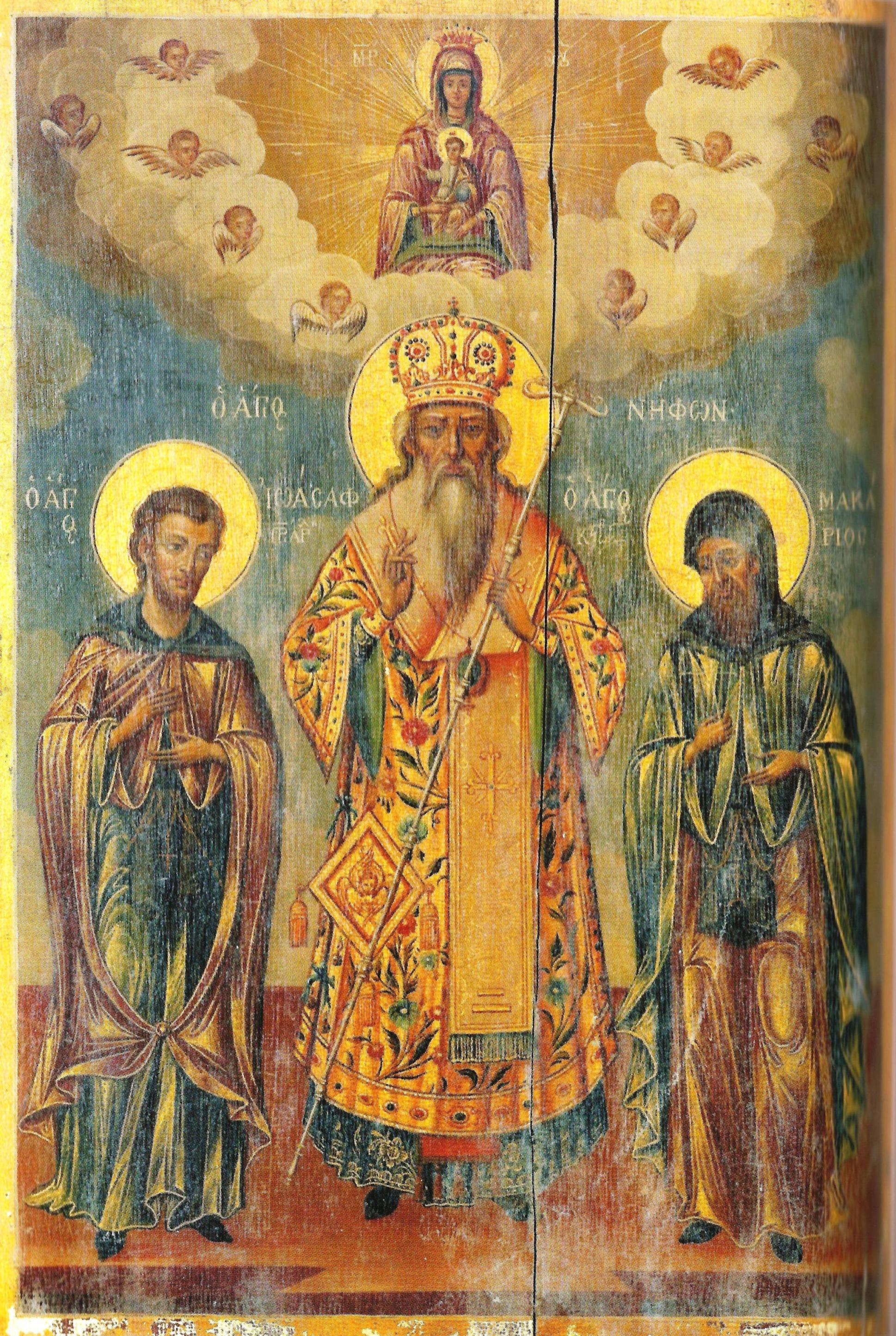 Nephon II of Constantinople Icon